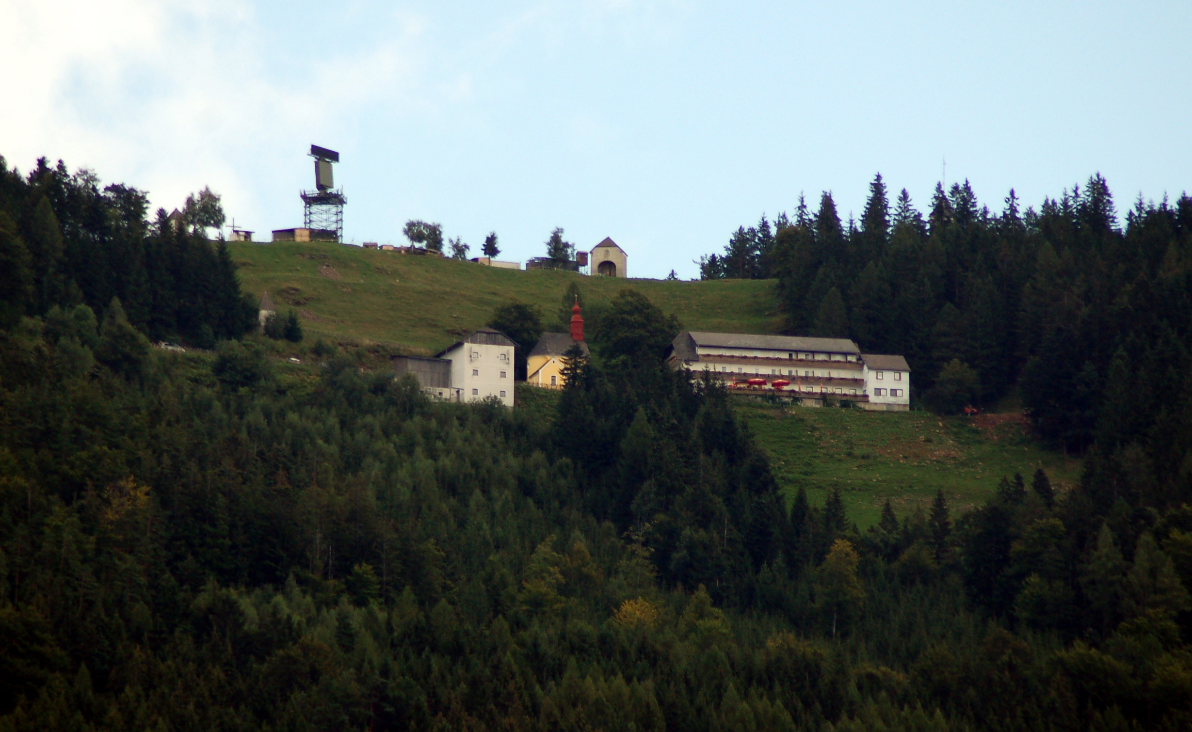 The summit area of Kulm (975m), Styria, Austria. The image shows a mobile radar station of the Austrian military, the cross on the summit enclosed into that military area. The military area is part of the Goldhaube Air observation system. A bit below is the chapel and the Kulmwirt.